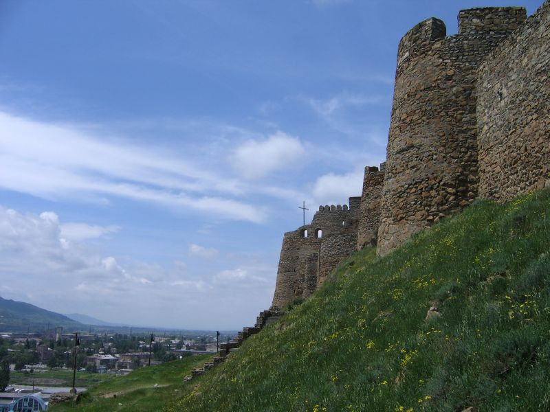 Gori fortress, Georgia